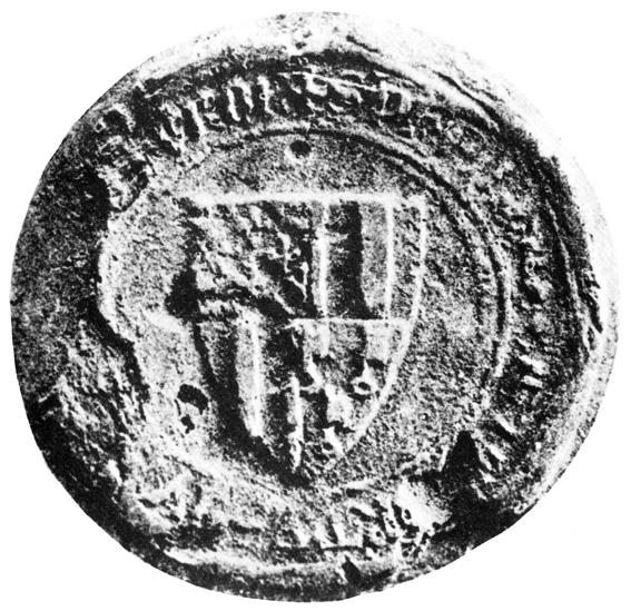 Seal of Philip of Majorca as treasurer of Tours Cathedral